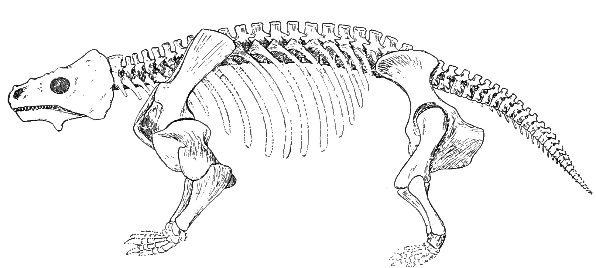 Pareiasaurus serridens skeleton Title: The American Museum journal Year: c1900-(1918) (c190s) Authors: American Museum of Natural History Subjects: Natural history Publisher: New York : American Museum of Natural History Text Appearing Before Image: 336 THE AMERICAN MUSEUM JOURNAL probability both views were correct, the Pelycosaurs being a side branch from a direct line very near to the early mammalian ancestors, the Cyno- donts being probably the immediate ancestors of the mammal. Baur who worked here in America and died some fifteen years ago, was in favor of the reptile origin. Seeley adopted a rather curious view. He believed that the egg-laying mammals came from reptiles but that other mammals arose from amphibians. On the whole the Germans have favored the amphibians as ancestors, while English opinion although somewhat divided, has mainly been in support of the reptilian theory. The majority of Americans, doubtless influenced by Cope and Osborn, have always favored the descent of the mammals from a reptilian ancestor. I became interested in the question in 1885 and practically resolved then that I would contribute what I could to the solution of the problem. In 1892 I went to Australia and spent some years in studing the egg-laying Text Appearing After Image: " U I) V